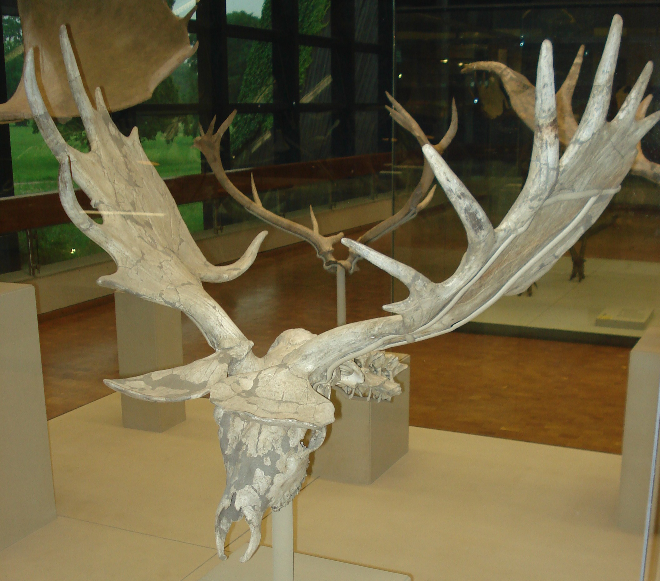 fossil of megaceros